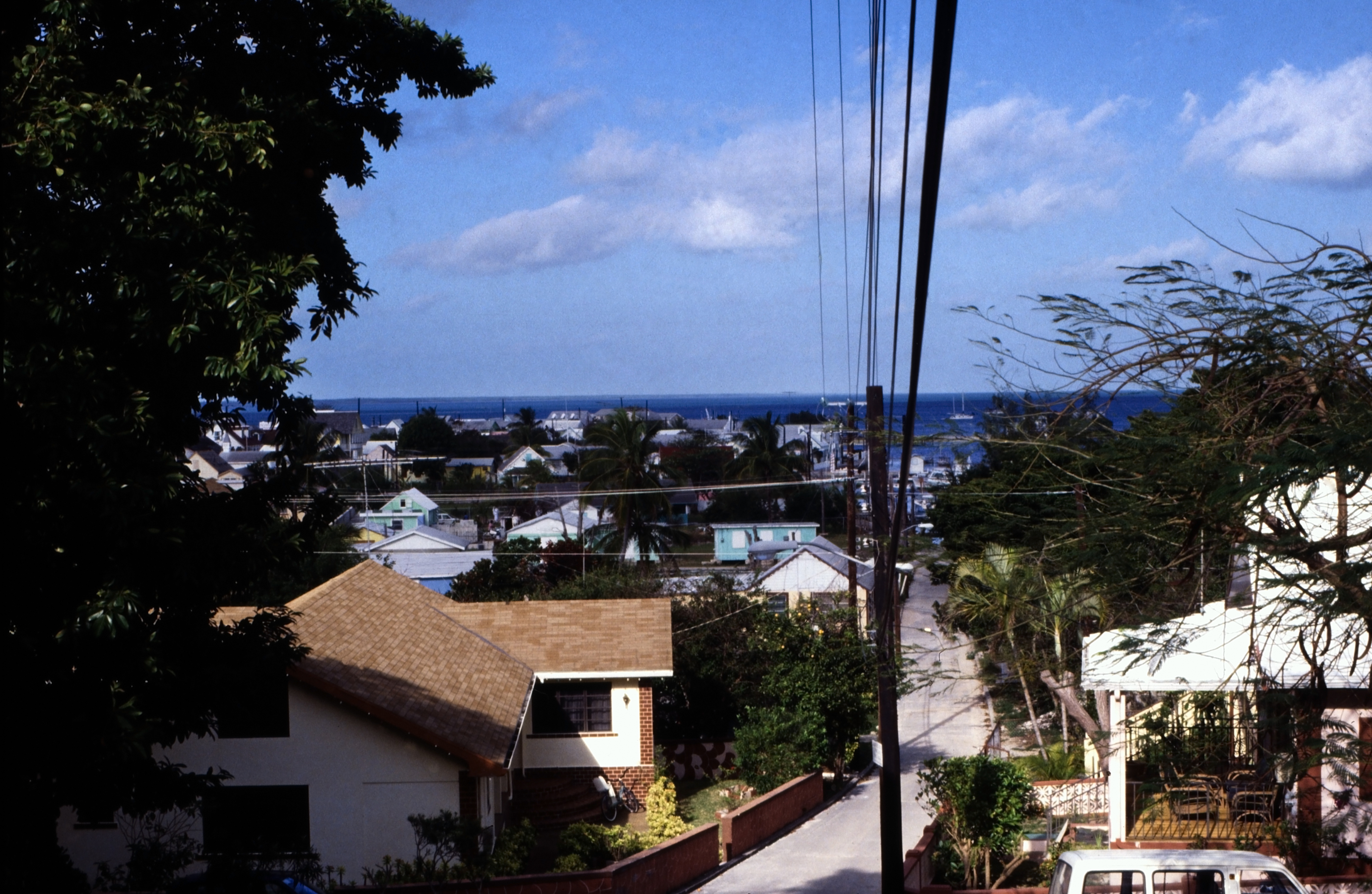 Downtown New Plymouth auf Green Turtle Cay, North Abaco .